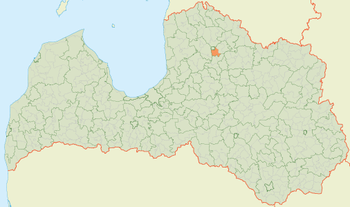 Location of Kauguri Parish in Latvia